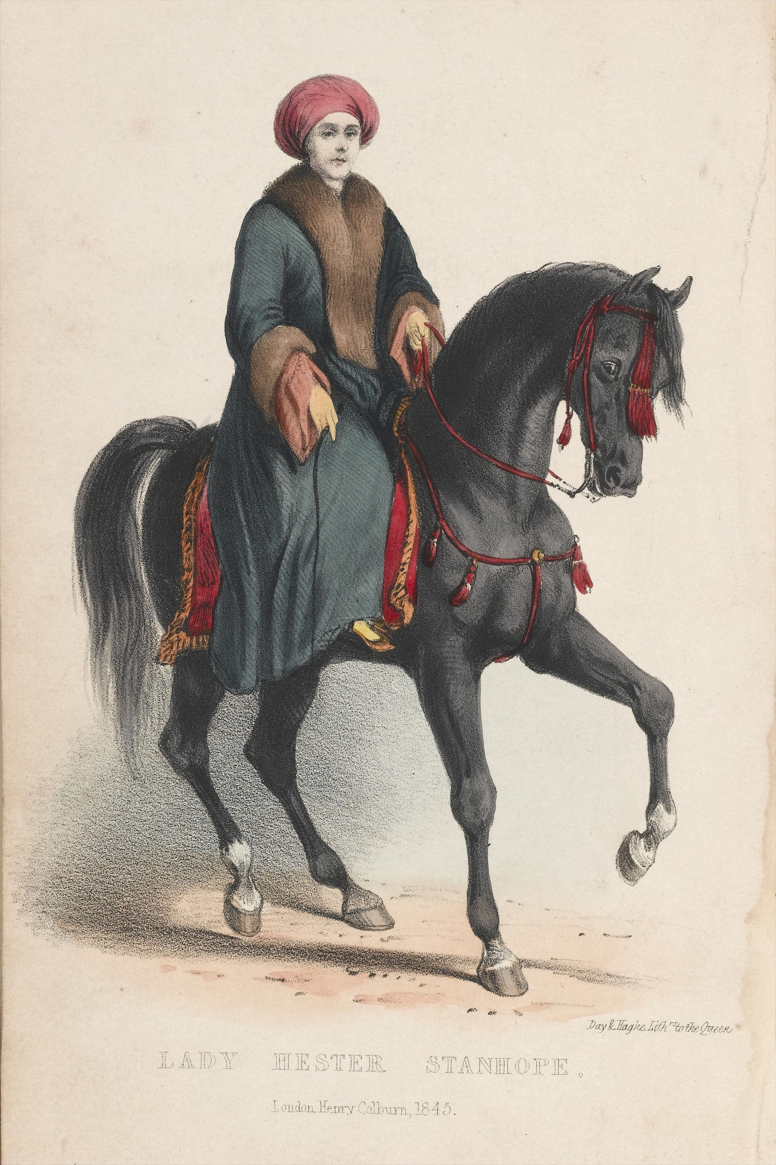 Lady Hester Stanhope on horseback from her memoirs, as related by herself in conversations with her physician [C.L. Meryon]; comprising her opinions and anecdotes of some of the most remarkable persons of her time Rare Books Keywords: Hester Lucy Stanhope